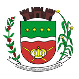 Coats of arms of José Bonifácio, SP